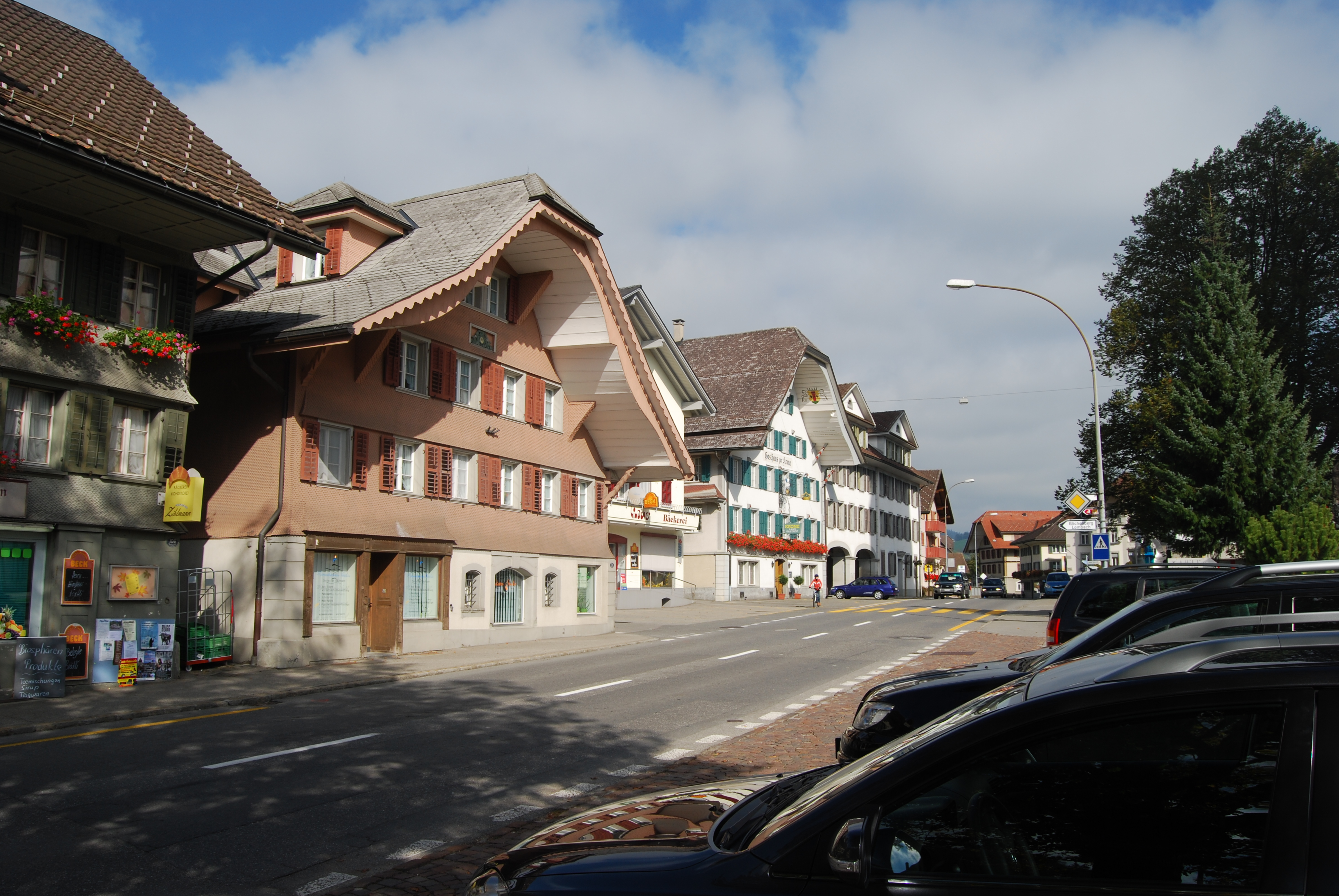 Escholzmatt, canton of Luzern, SwitzerlandEsperanto: Escholzmatt, Kantono Lucerno, Svislando